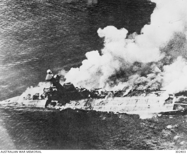 Aircraft carrier HMS Hermes sinking, 9 April 1942